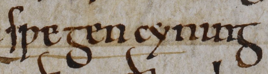 The name of Sveinn Haraldsson, King of Denmark (died 1014) as it appears on folio 161v of British Library Cotton MS Tiberius B I (the "C" version of the Anglo-Saxon Chronicle).